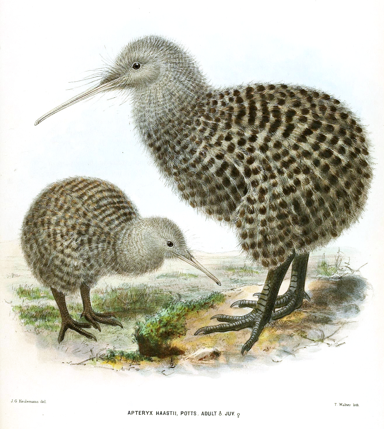 Apteryx haastii (immature and adult male).